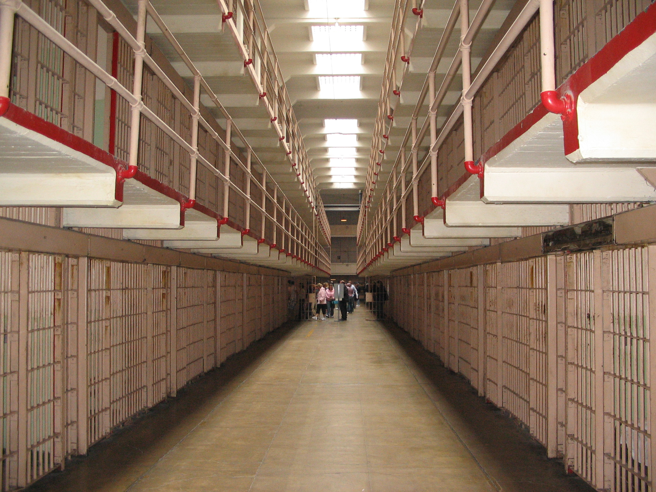 "Broadway" - The Main Corridor of the Cellhouse on Alcatraz "Broadway" - The Main Corridor of the Cellhouse on Alcatraz